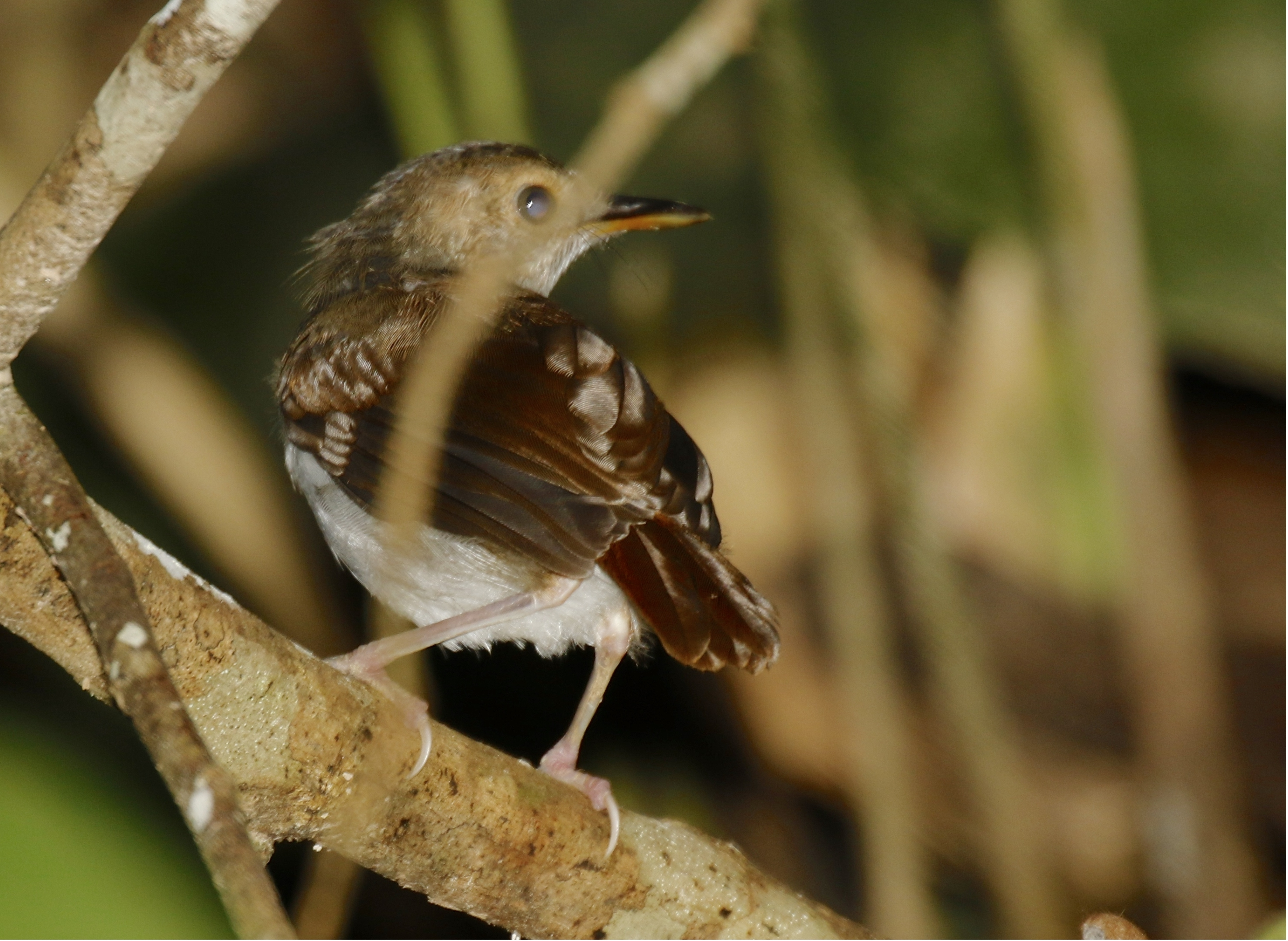 Sepilok Nature Resort - Sabah, Borneo